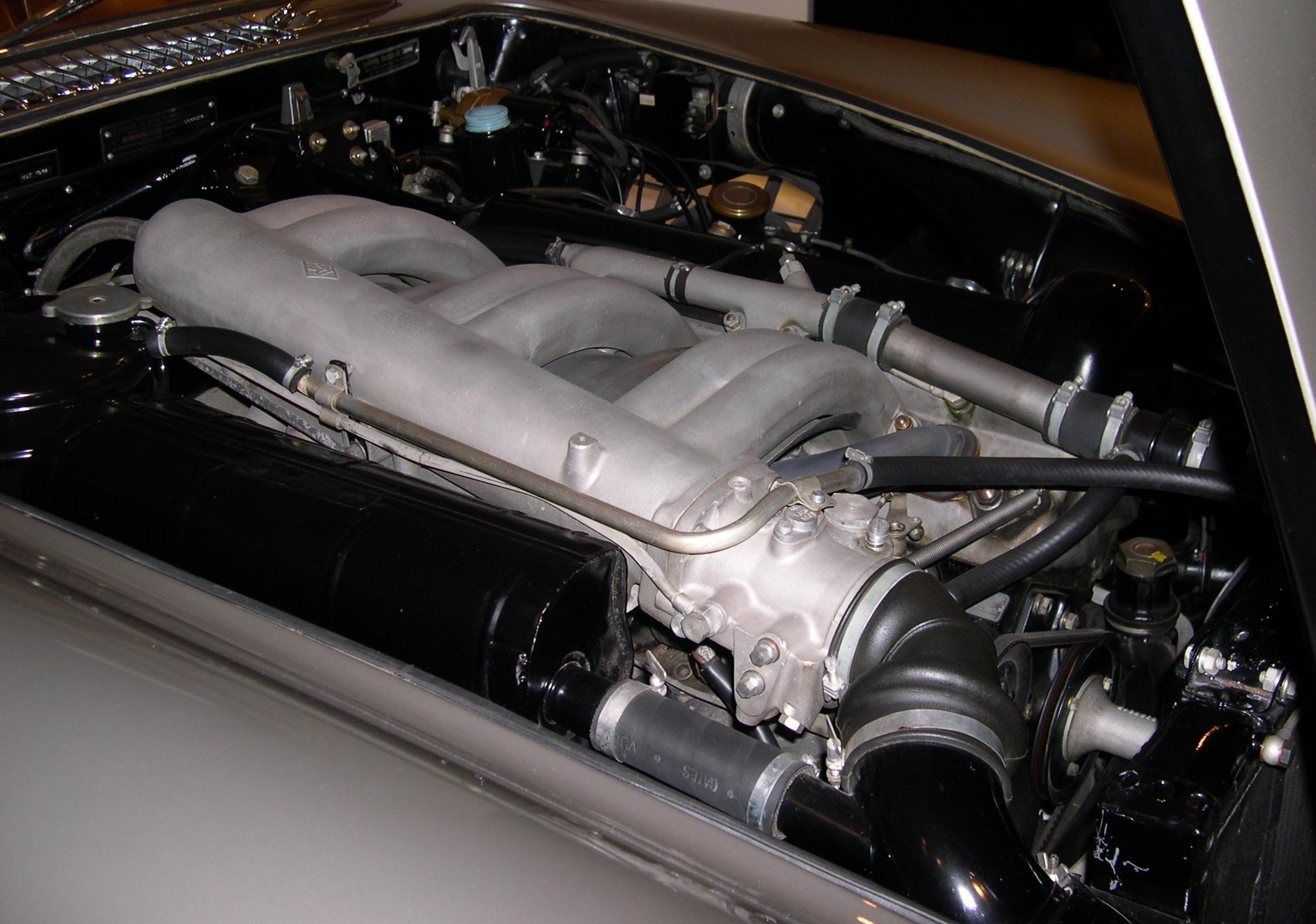 1955 Mercedes-Benz 300SL Gullwing Coupe From the Ralph Lauren collection on display at the Boston Museum of Fine Arts. Photo taken in 2005. Source: Photo by User:Sfoskett